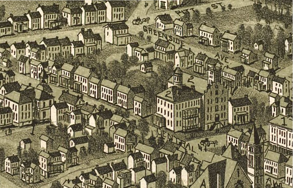 Map of Canonsburg, Pennsylvania showing the former campus of Jefferson College, which was by then the home of Jefferson Academy.